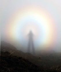 Photo of Brocken